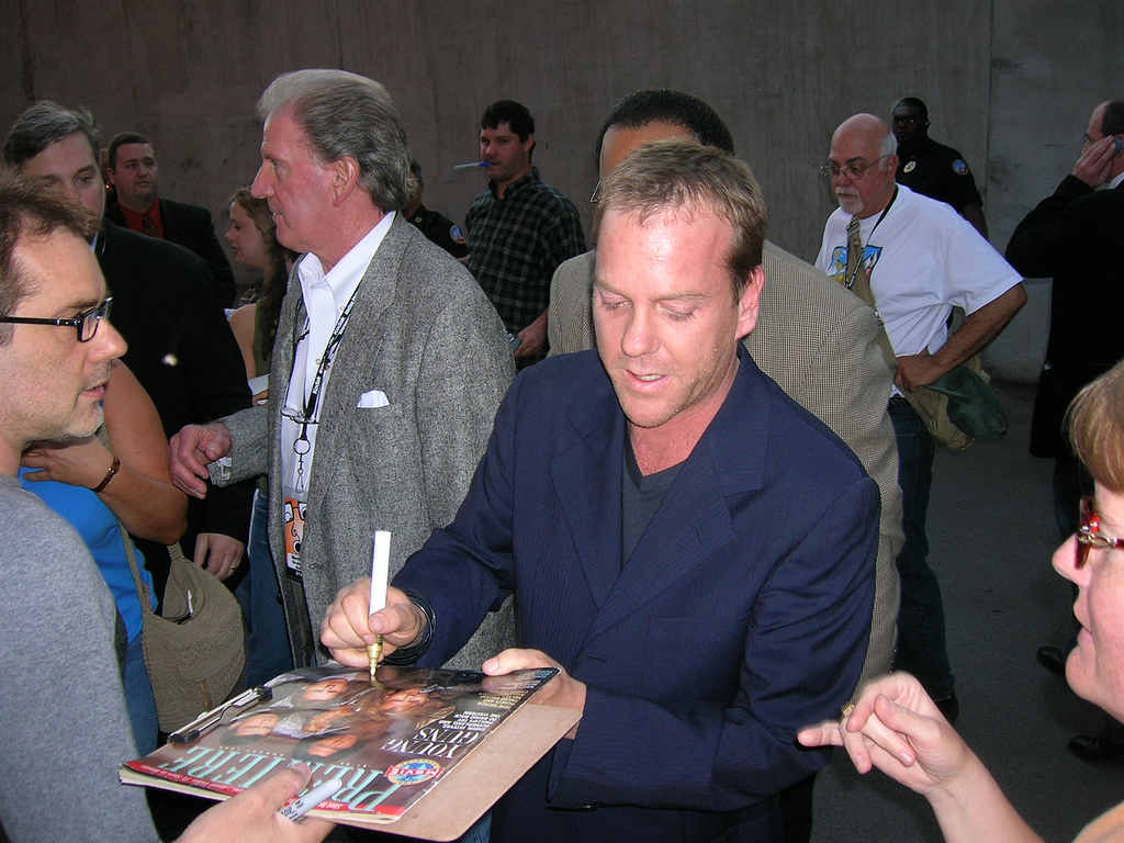 Kiefer Sutherland while signing an autograph at Green Hill conference